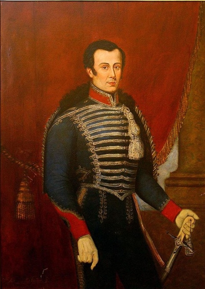 Portrait of chilean General José Miguel Carrera